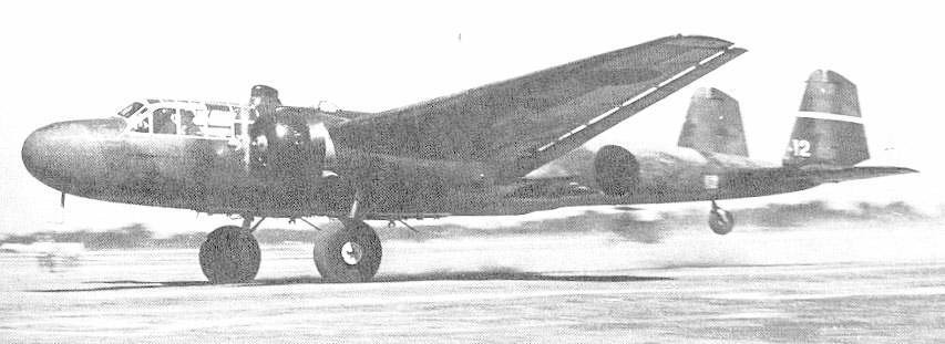 Type 96 Japanese attack air-plane